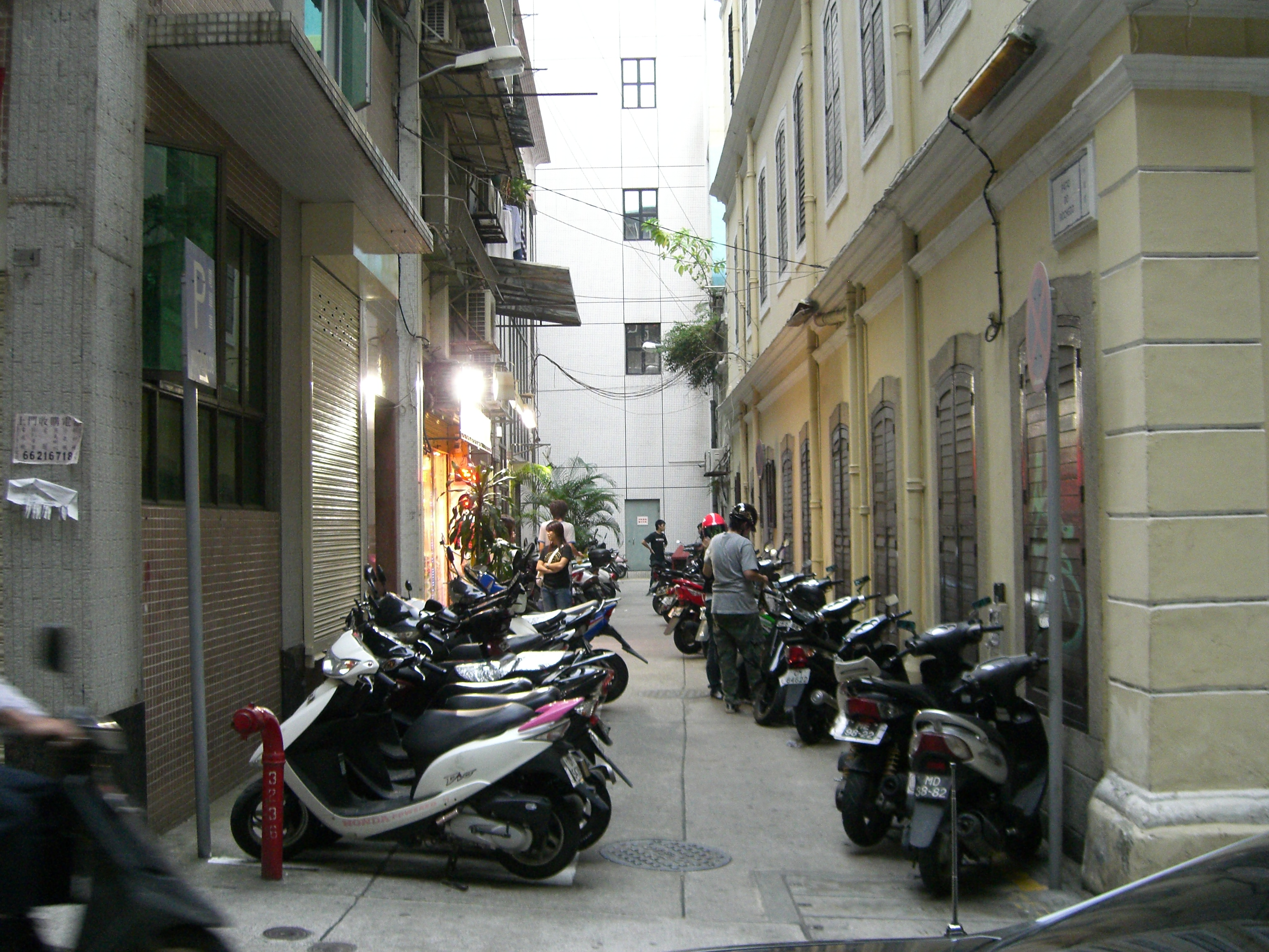 A street in Macau is fully parked with motorcycles